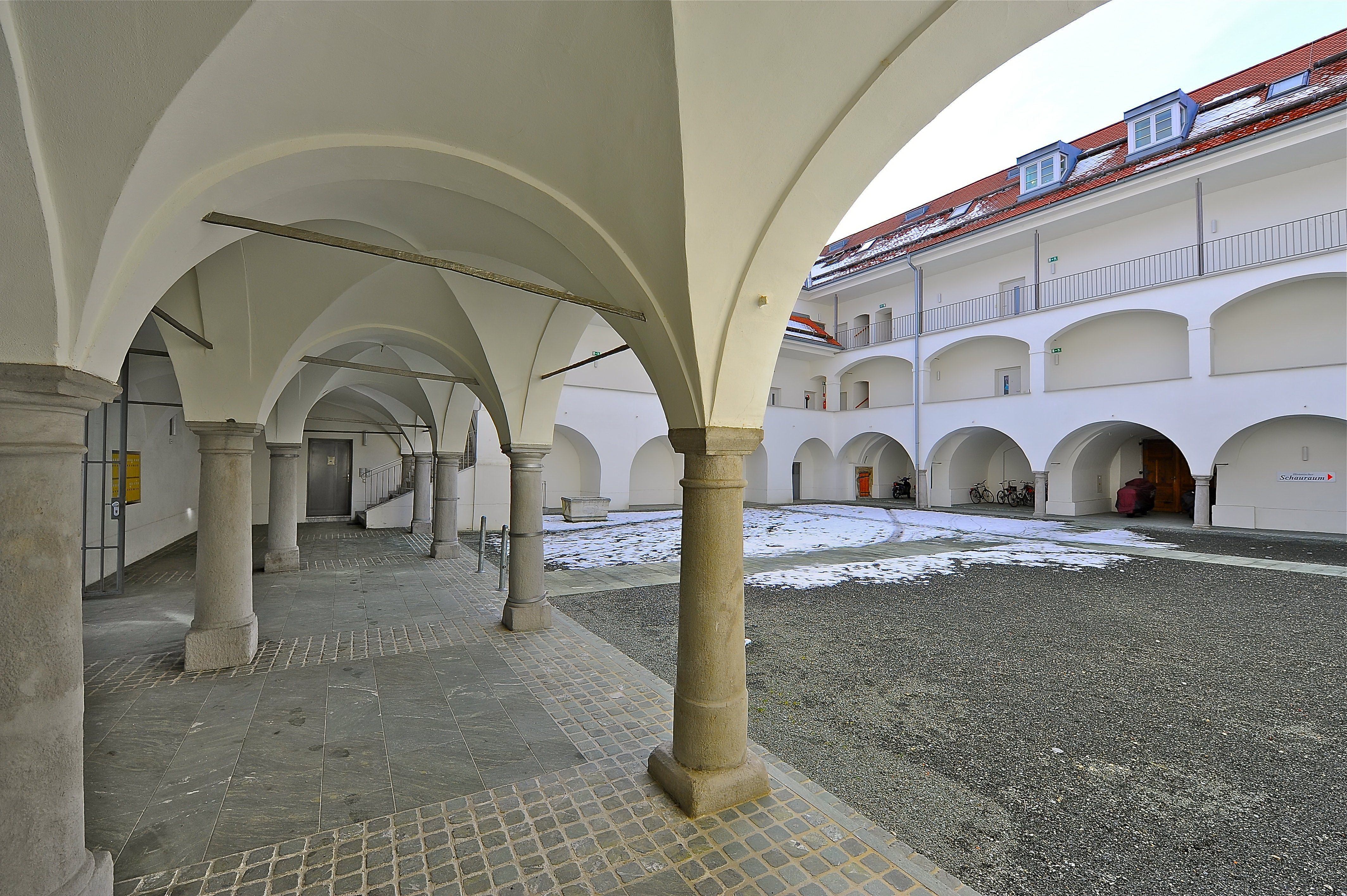 Arcade yard of «Villach Castle», municipality Villach, Carinthia, Austria, EU